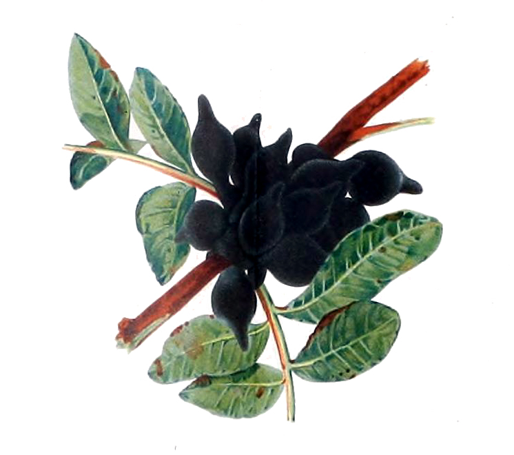 Sepia officinalis